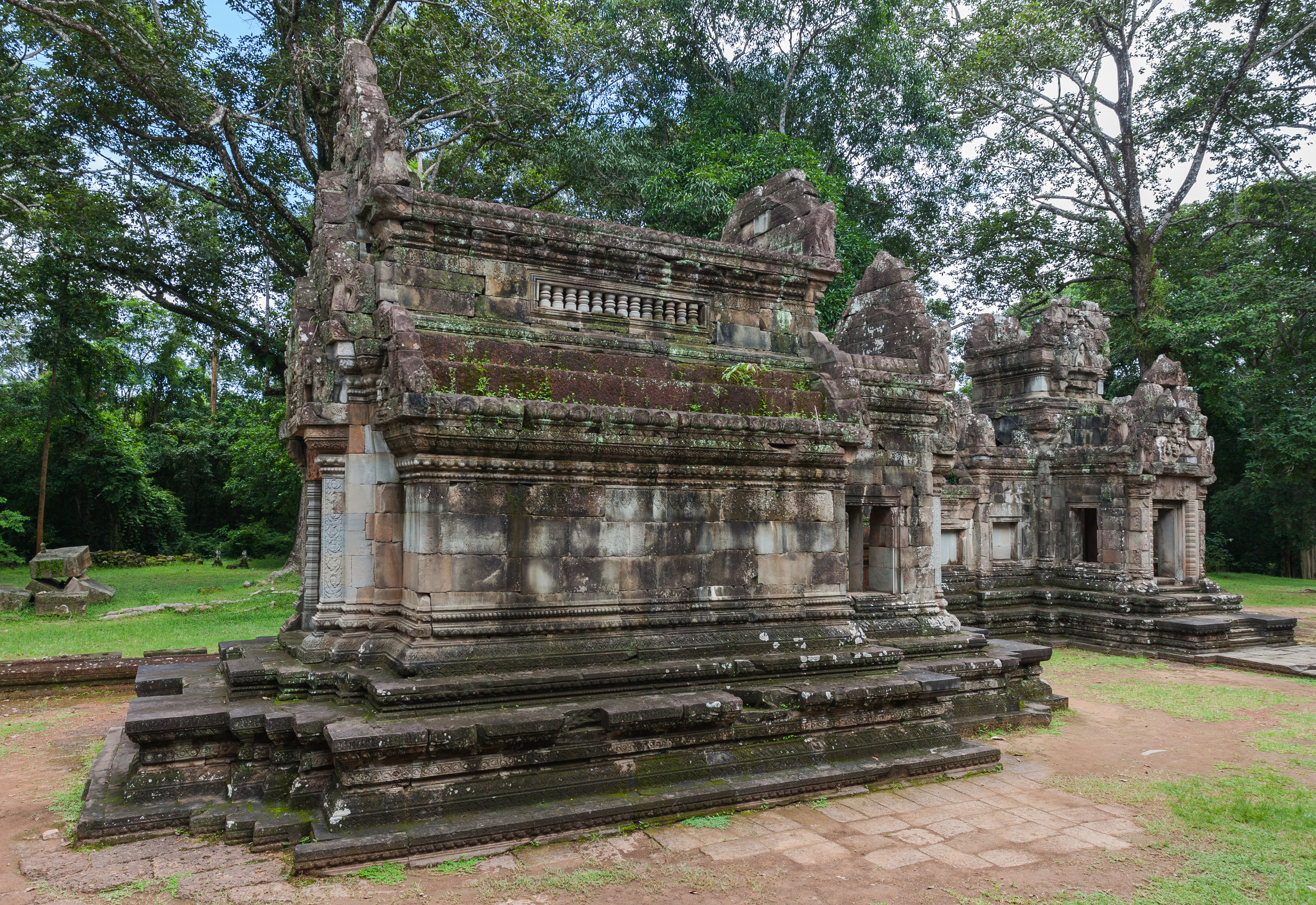 Chao Say Tevoda, Angkor, Cambodia